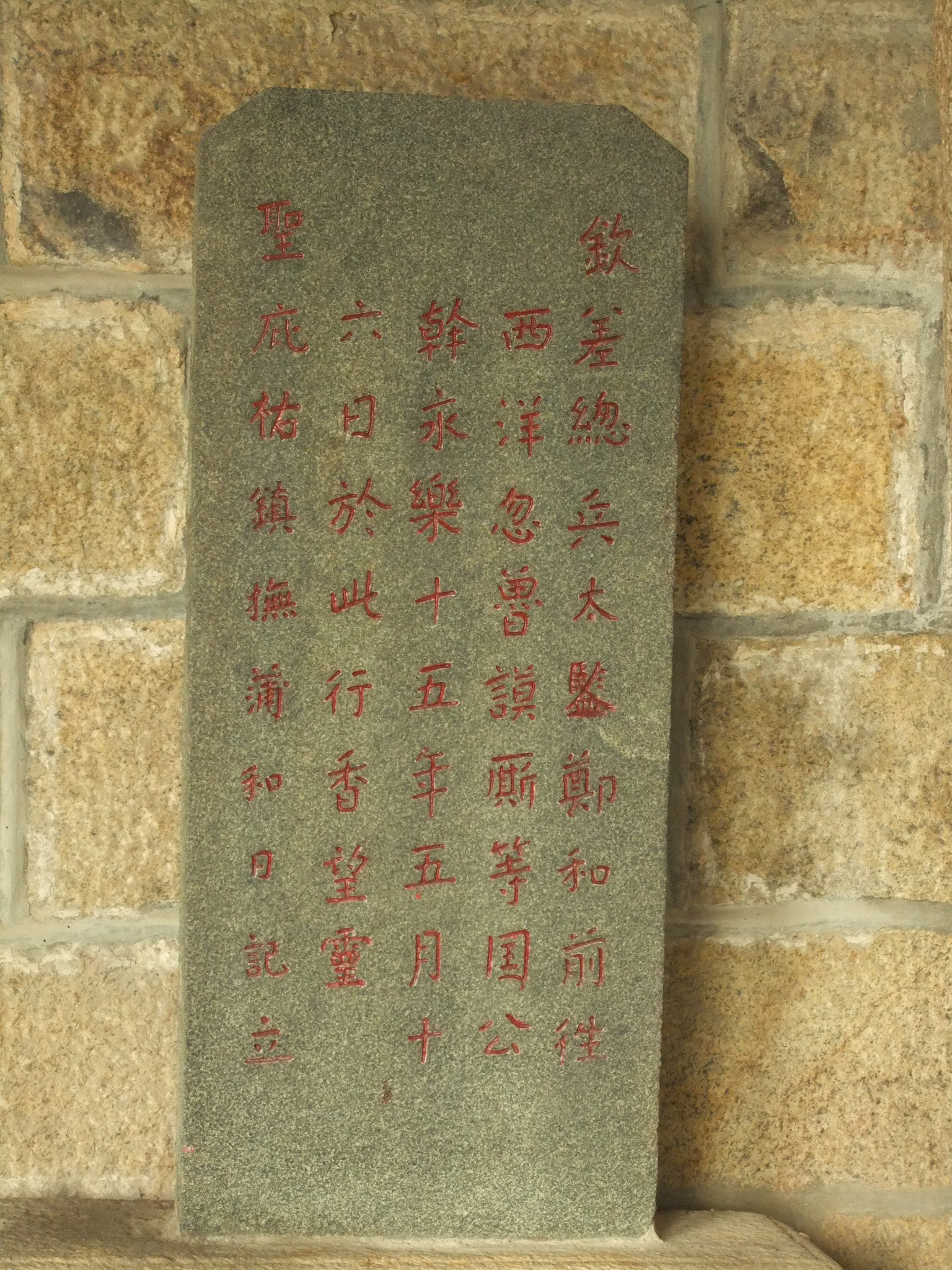 The tombs of the "Two Worthies", two early Islamic missionaries that supposedly came to Quanzhou to propagate Islam in the 7th century. They are the centerpiece of Lingshan Islamic Cemetery (Lingshan Park) in Quanzhou. There are a number of stelae next to them, erected at various times from the Yuan Dynasty to the present day. This photo shows the stele erected in memory of Zheng He's visit to the tombs in 1417.